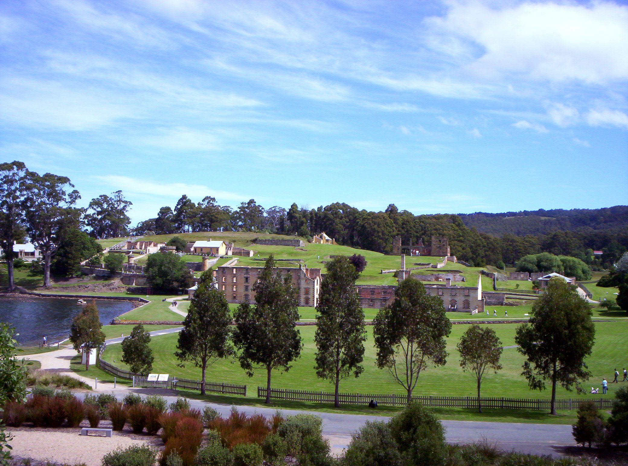 Outside Port Arthur. Author: Matt Howe. I took this photo myself.